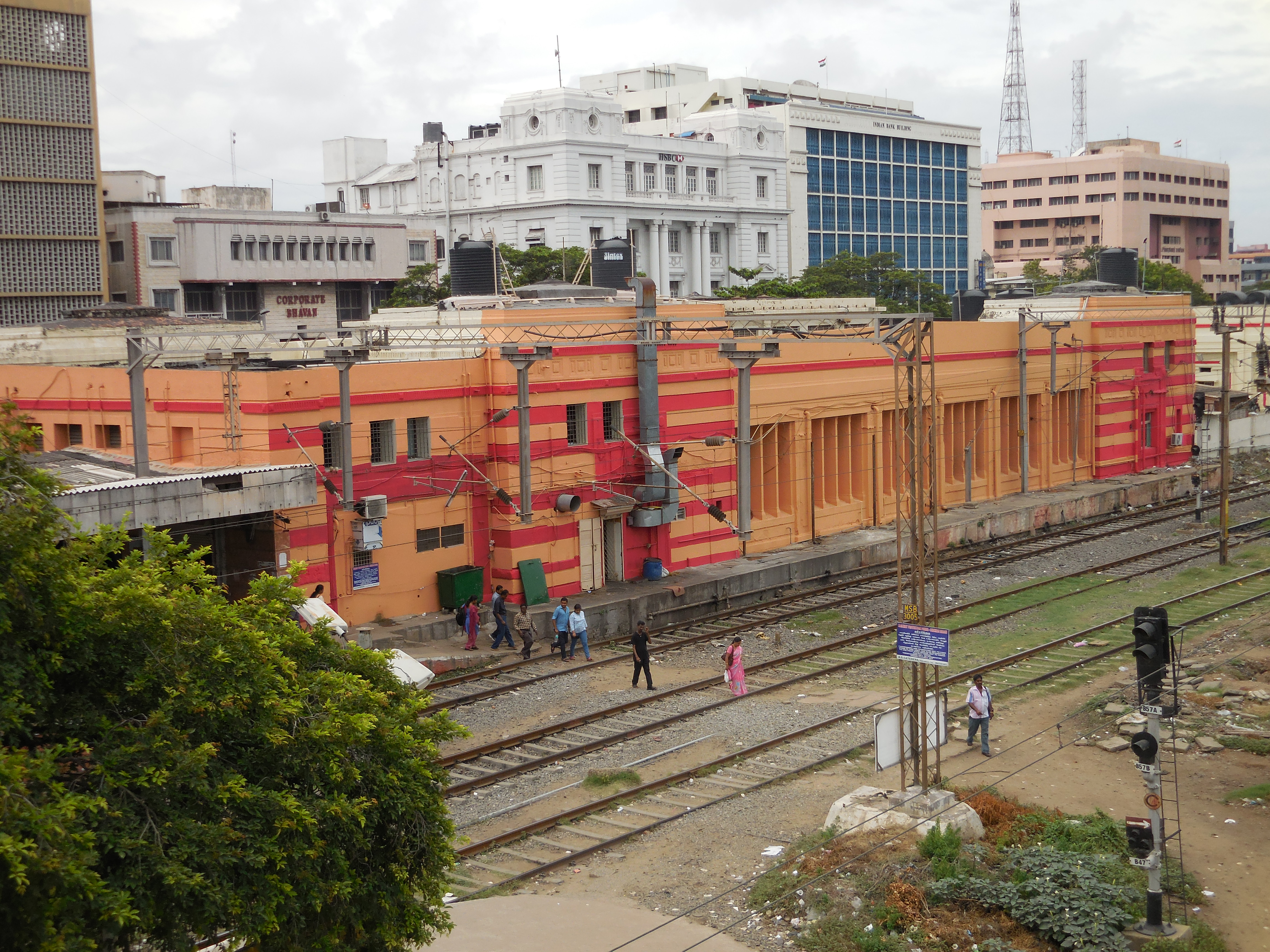 Beach Station main building, taken on 23-Aug-2014, at 2:12 pm